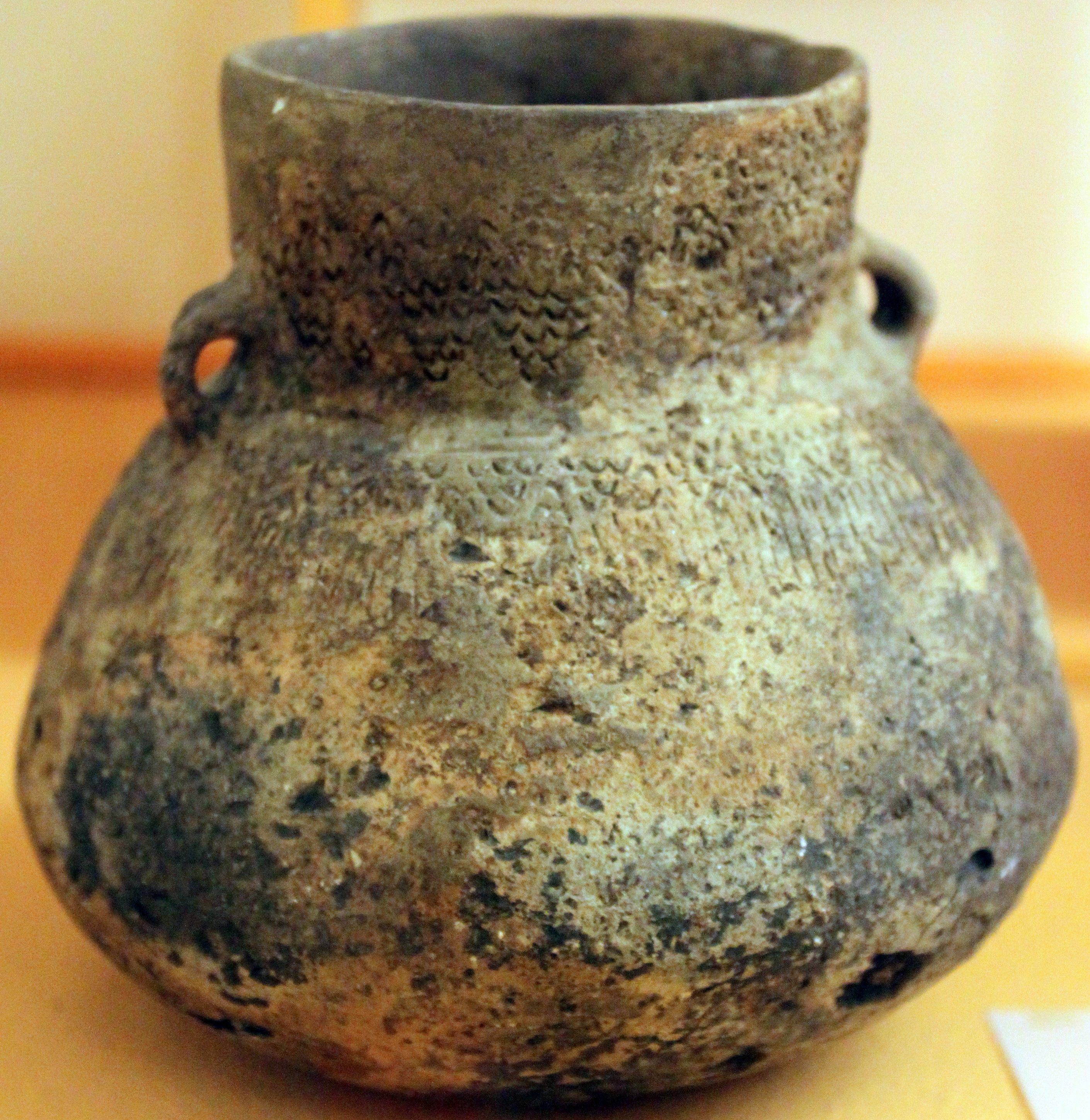 Amphora of the Spheric-Amphora-Period (3100-2700 BC), discovered in 1979 during excavation works at the castle Friedrichsfelde, now shown at Märkisches Museum Berlin